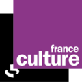 This is a Logo of the radio station France Culture, owned by Radio France